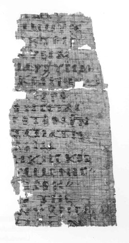 Papyrus 79 verso